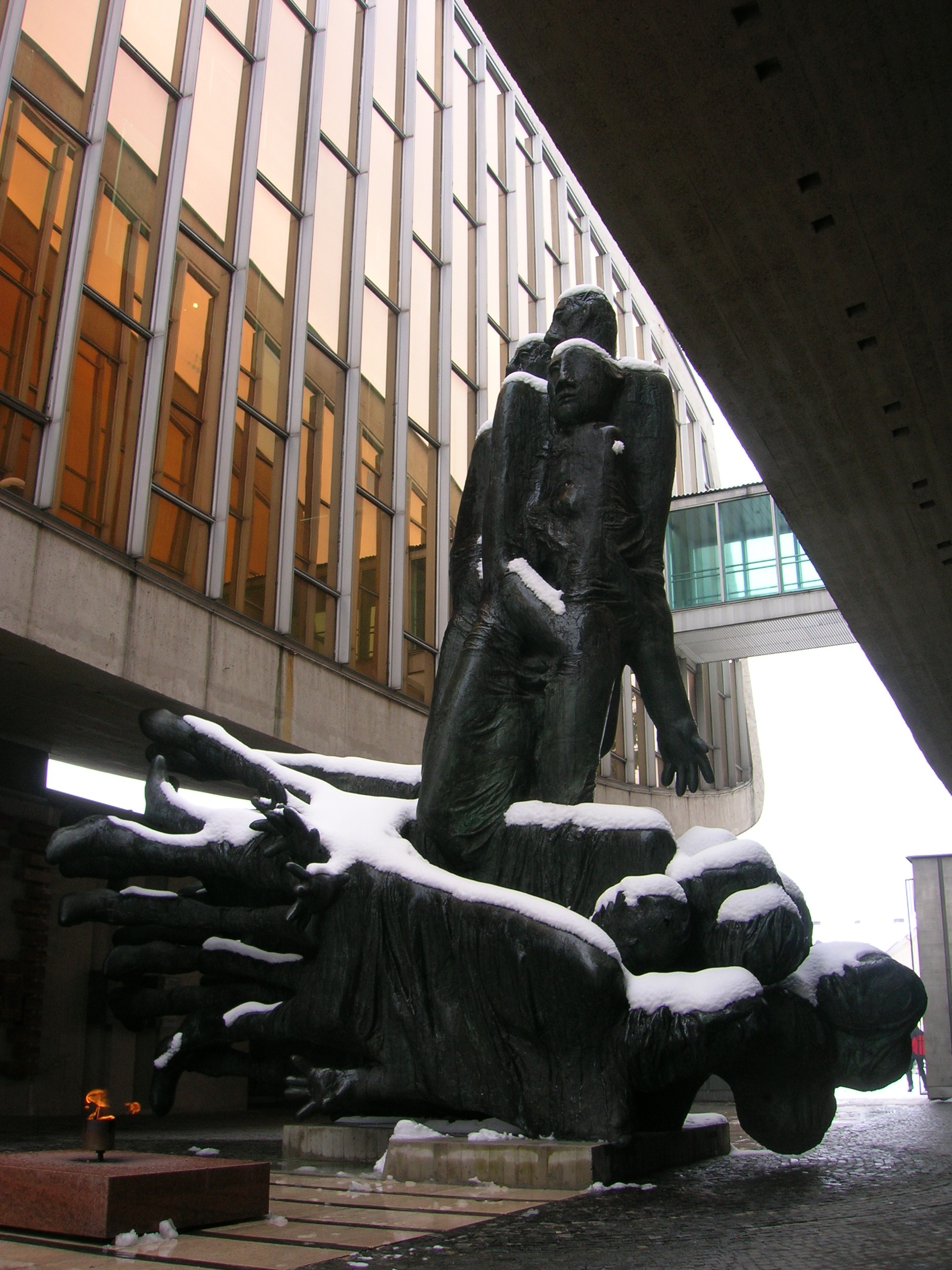 monument of the national uprising in Banská Bystrica